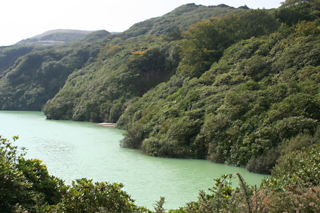 Lansalon Pit. The green colour of the water in the pit is due to very fine particles of clay suspended in the water. The same effect sometimes happens naturally in lakes fed by glaciers.